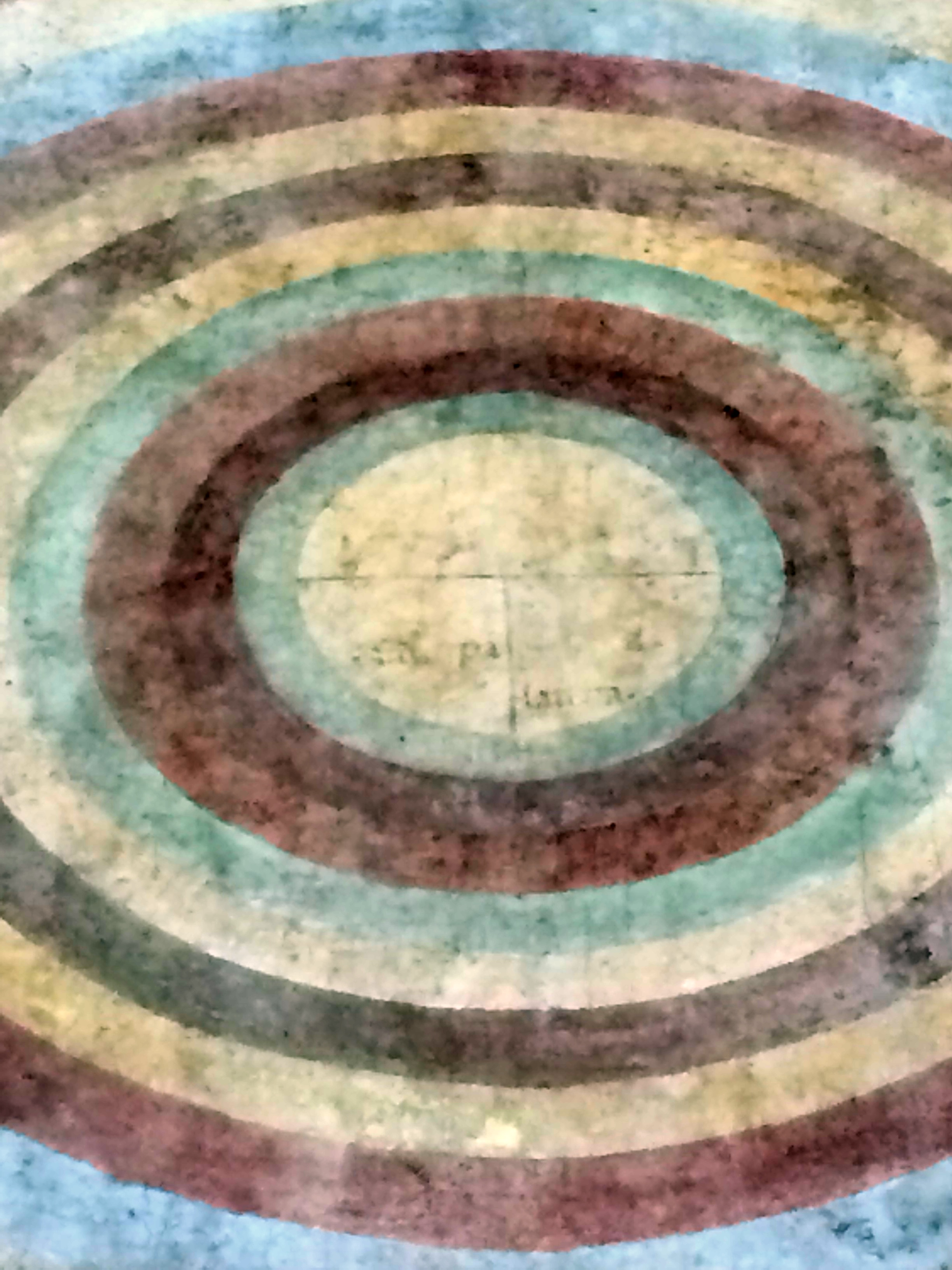 Camposanto monumentale of Pisa, Italy. Fresco of the theological cosmography. T-O mappamundi at the center of a cosmographical diagram that represents the Universe.